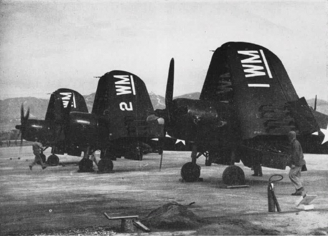 Three Vought F4U-4 Corsair fighters of the headquarters squadron of Marine Air Group 33 (MAG-33) during maneouvers at Camp Pendelton, Califorina (USA), in 1948.